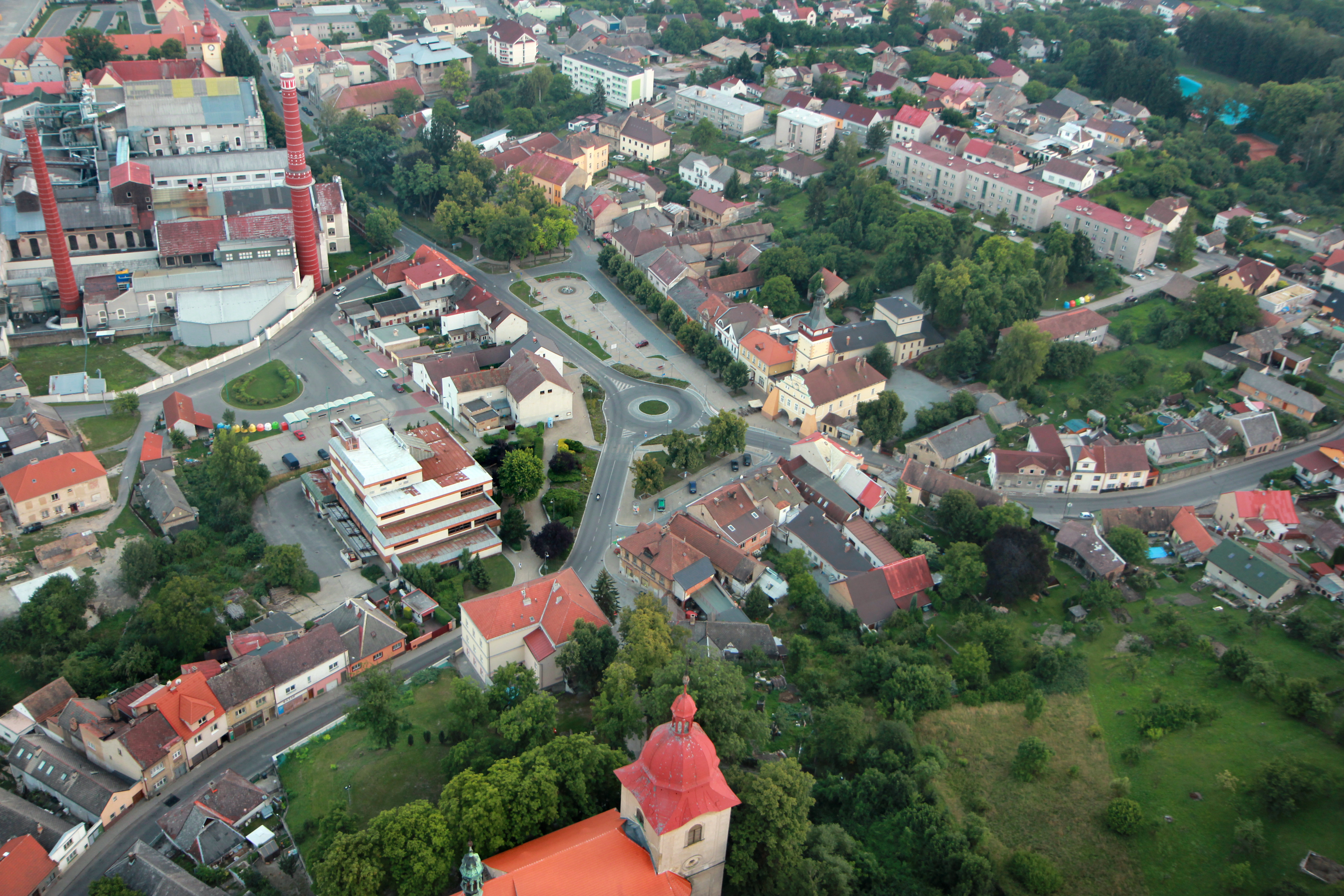 Palackého square in Dobrovice, Czech Republic